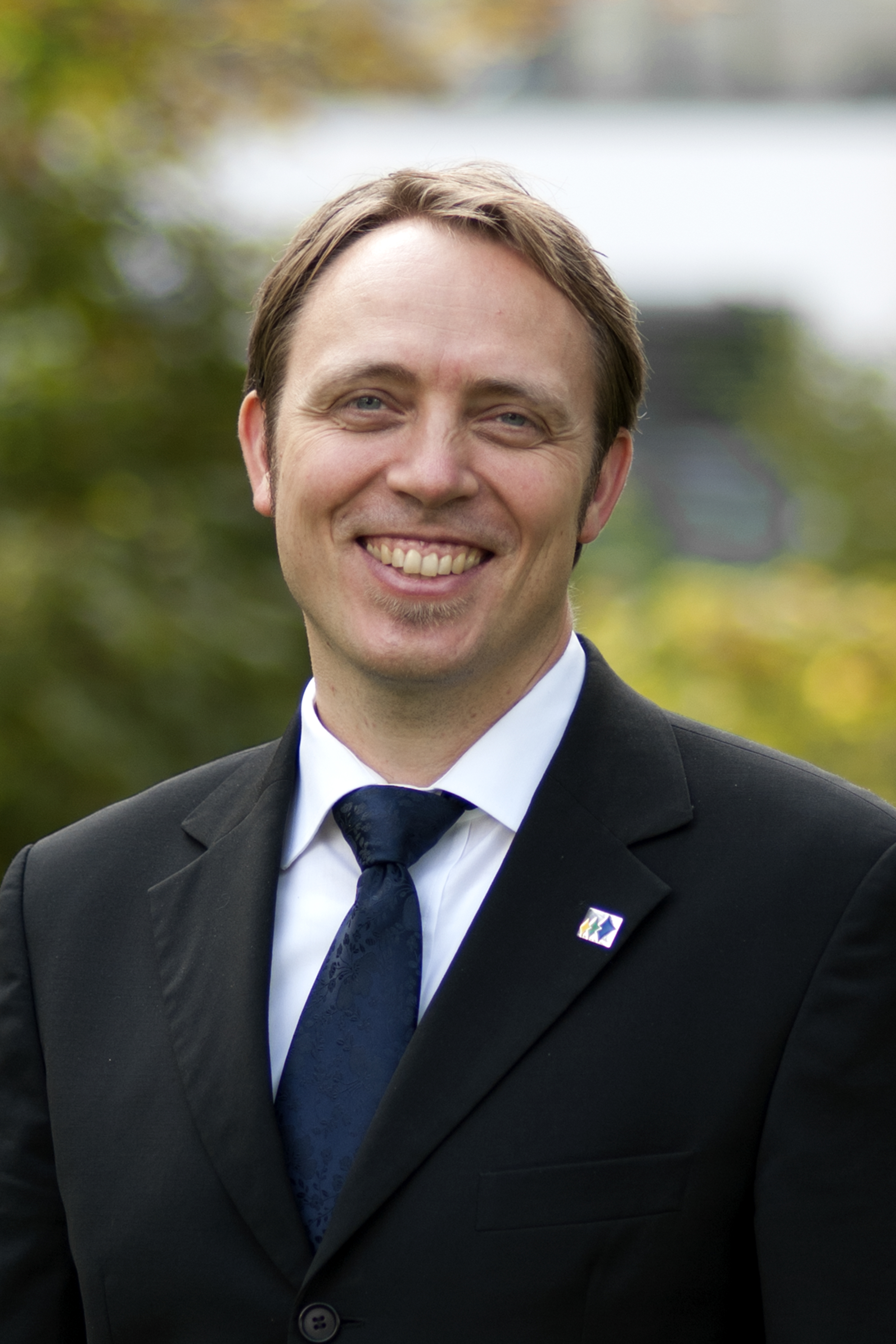 Ingo Dahm at the IUBH campus Bad Honnef